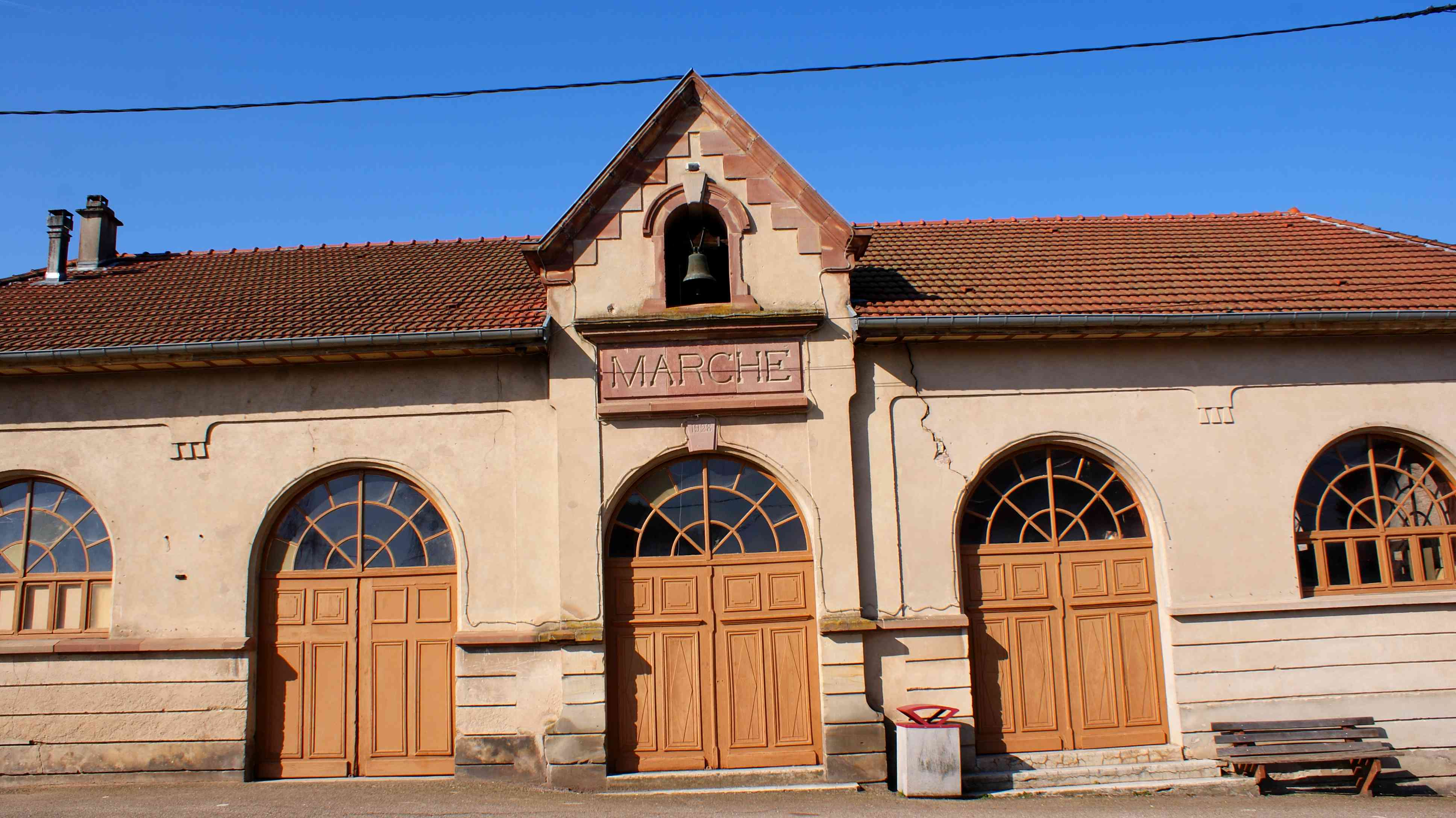 Badonviller market hall, 1928.